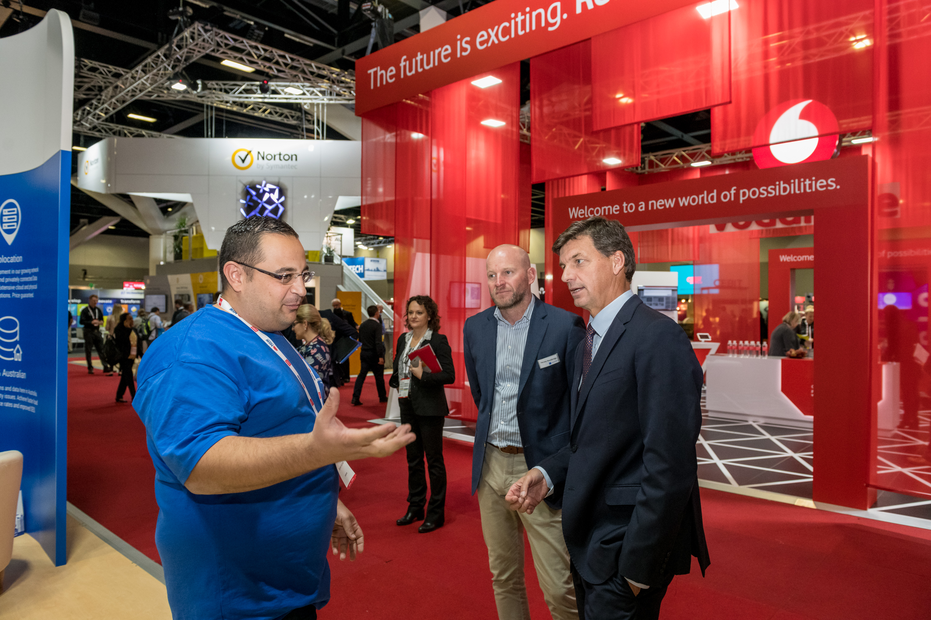 The Hon Angus Taylor MP with Harvey Stockbridge of CeBit talk with staff from Servers Australia at CeBit 2018